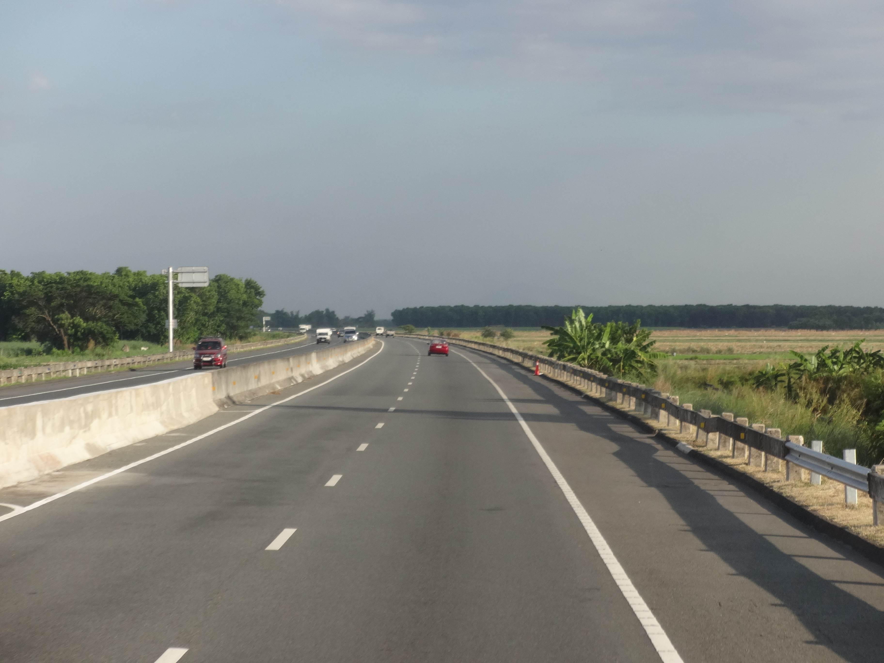 Tarlac-Pangasinan-La Union Expressway in Pura, Tarlac